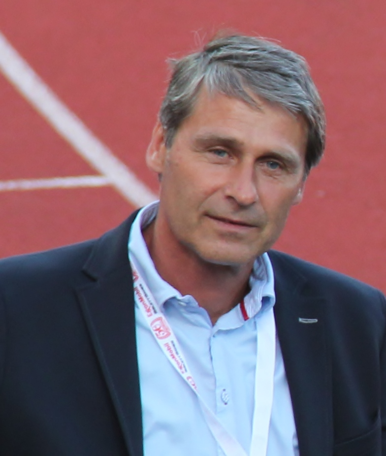 Jan Zelenzny at the 2015 Bislett Games